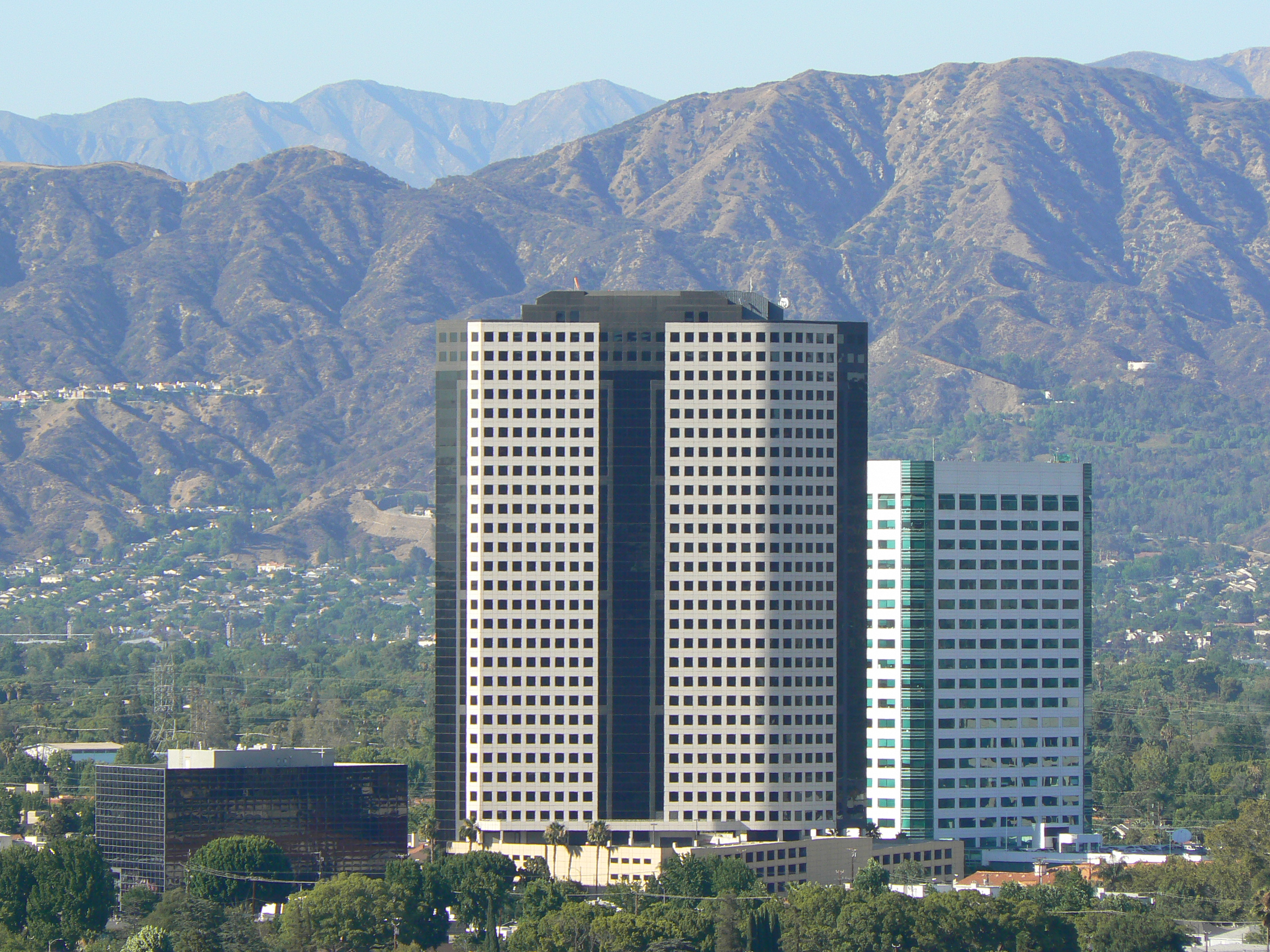 Buildings in the media district of Burbank, California — Verdugo Mountains in backround.